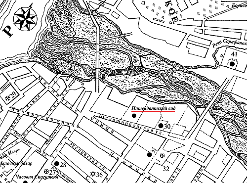 Intendantskiy gareden on map of Irkutsk in 1907-1917